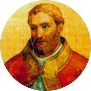 Portait of Pope Boniface VI in the Basilica of Saint Paul Outside the Walls, Rome